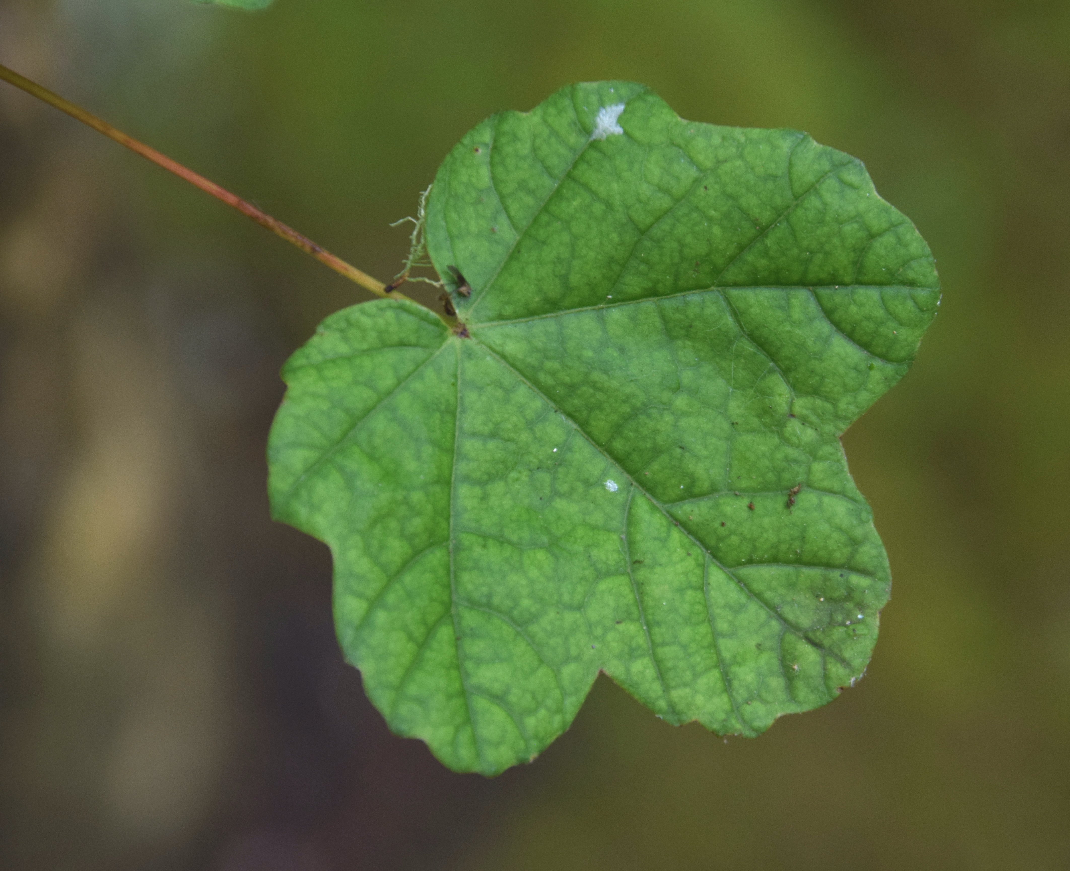 Acer opalus in Eastwoodhill Arboretum, Gisborne Region, New Zealand